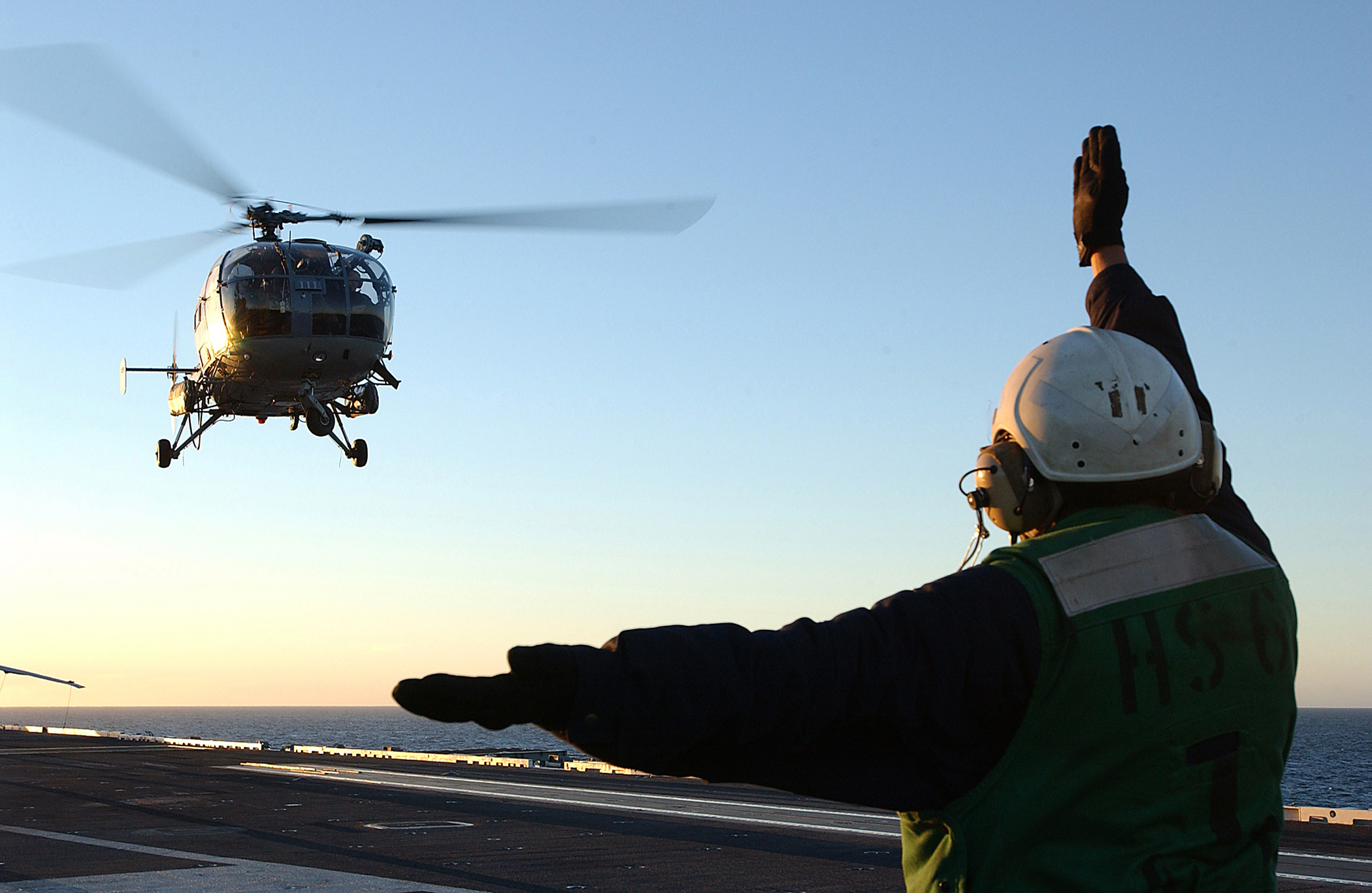 South Pacific Ocean (June 17, 2004) – Aviation Boatswain’s Mate 2nd Class Rodney Larkins, from Sacramento, Calif., lands an Argentine SA-316 Alouette III helicopter containing Distinguished Visitors (DV) on the flight deck of Nimitz-class aircraft carrier USS Ronald Reagan (CVN 76). The SA-316 Alouette is a light attack, transport, general-purpose military helicopter. It can carry a crew of six, and an armament that include a gun or cannon, missiles and torpedoes. Reagan is currently circumnavigating South America to her new homeport of San Diego, Calif. U.S. Navy photo by Photographer’s Mate Airman Konstandinos Goumenidis (RELEASED)